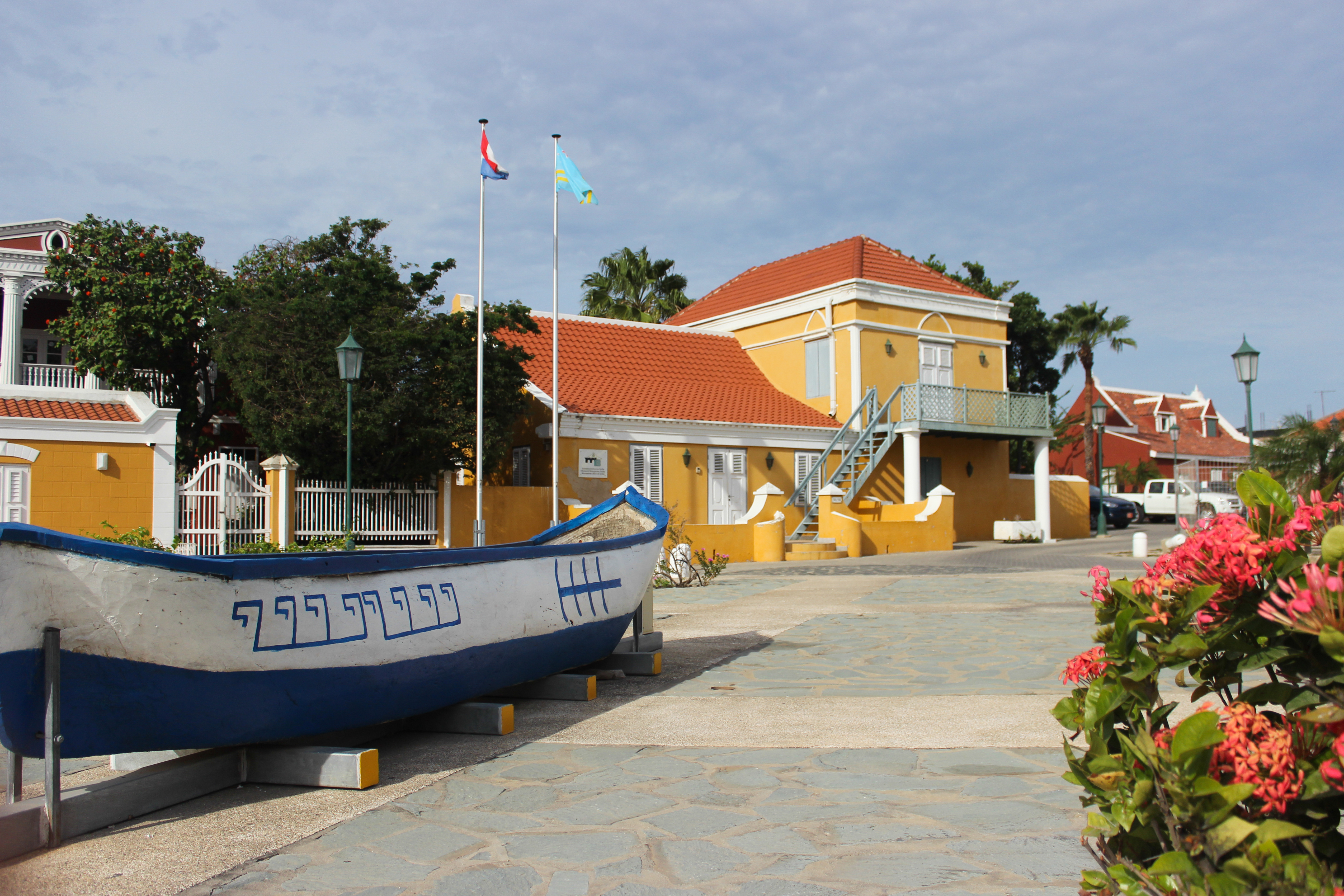 The Monument bureau, henriquez building